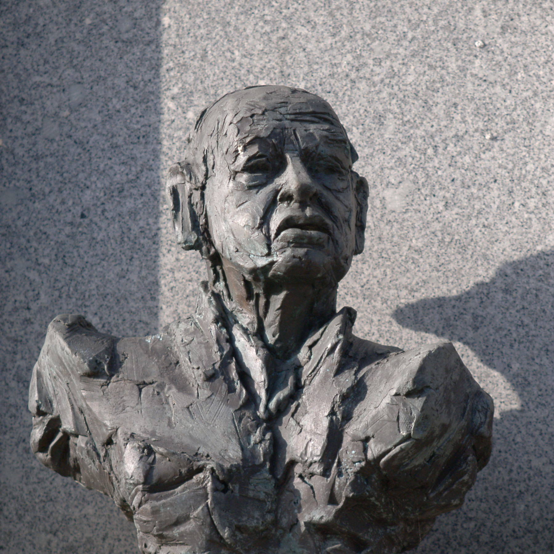 Bronze figure of the former (1951 - 1975) mayor of Herne, Germany, Robert Brauner, sculptor Heinrich Brockmeier